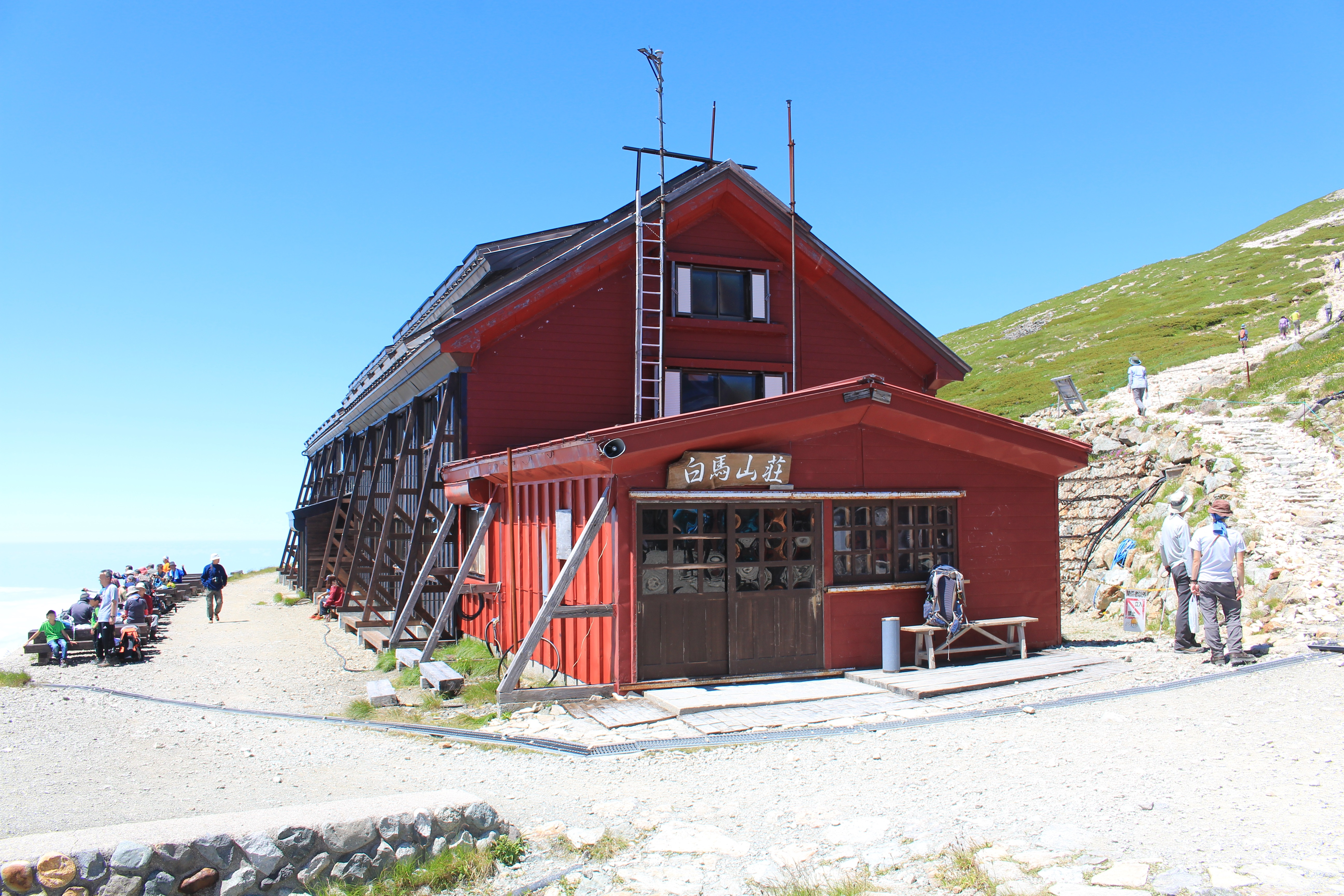 Hakuba Sanso, in Mount Shirouma, Hakuba, Nagano prefecture, Japan.